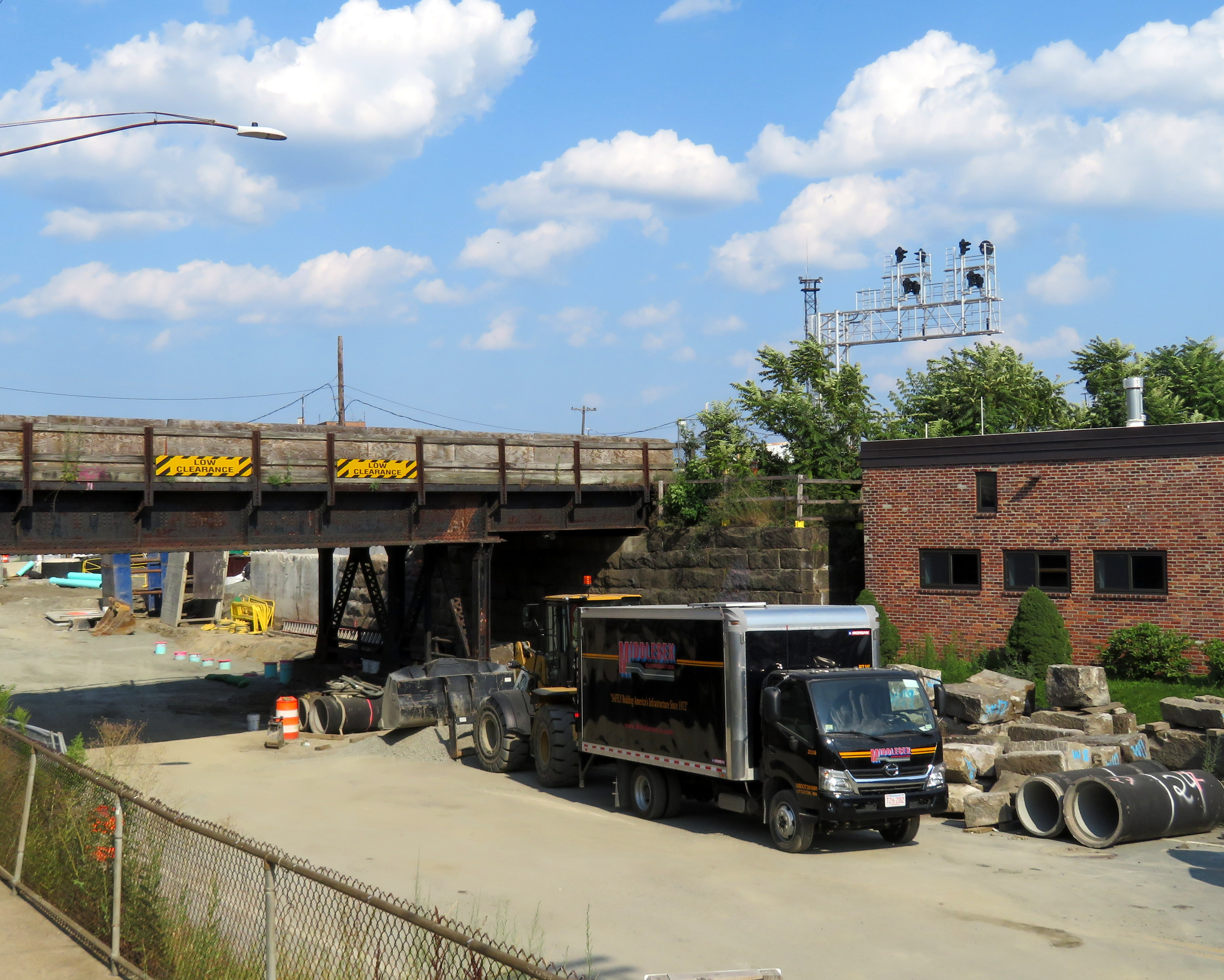 The future site of the entrance to East Somerville station in July 2019